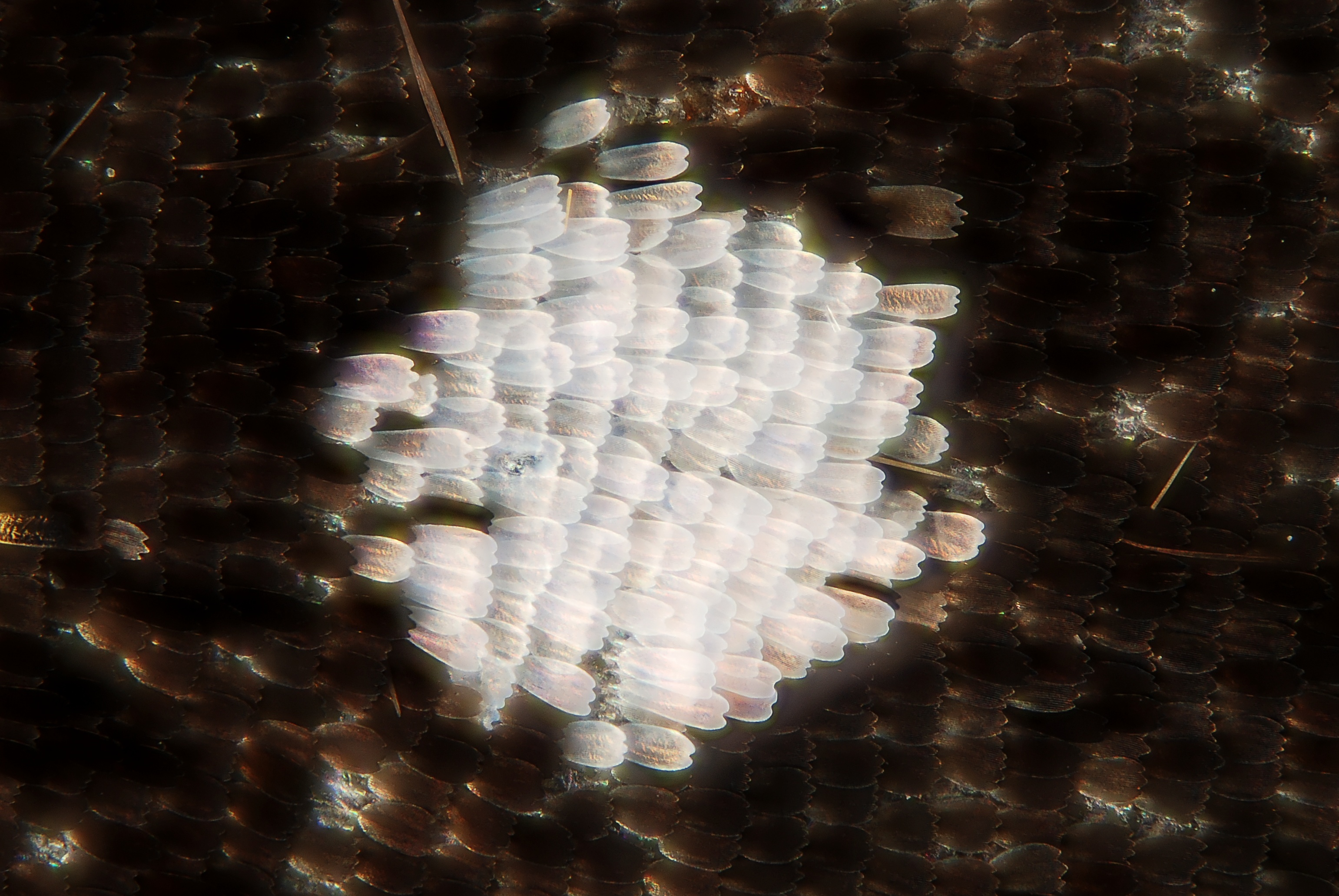 The center pupil of the so called anterior "eyespot" on the fore wing of the African butterfly Bicyclus anynana scale : diameter of the white pupil : 0.35 mm Technical settings : - focus stack of 29 images - microscope objective (Nikon achromatic 10x 160/0.25) on bellow